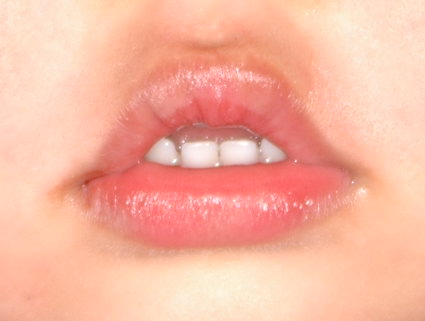 teeth photo